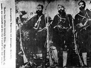 Ioannis Kalogerakis, Ioannis Simanikas, Georgios_Dikonimos